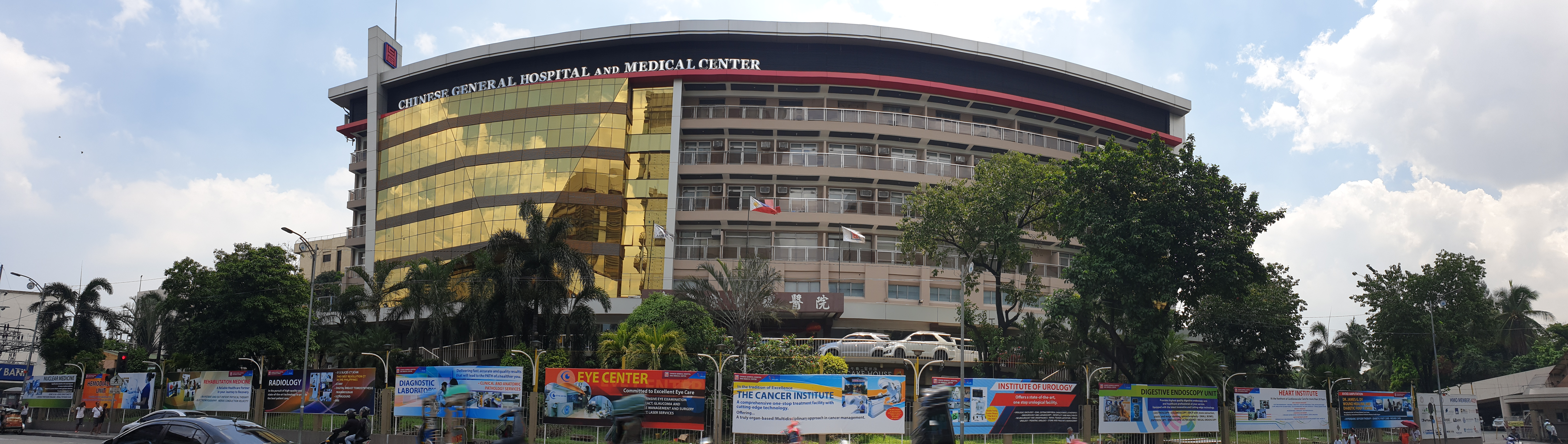 A view of the Chinese General Hospital from a nearby pedestrian overpass.